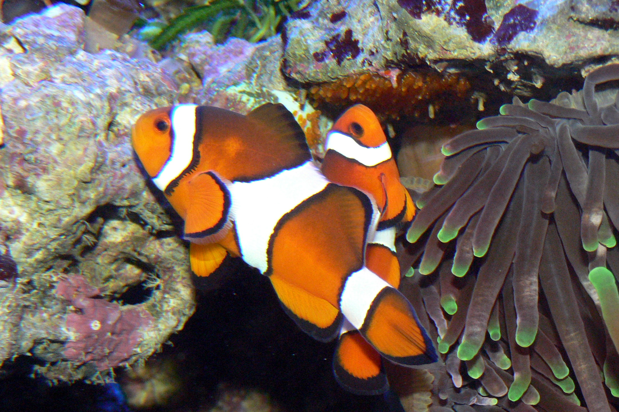 Amphiprion percula with eggs